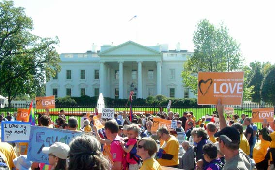 Marchers in the National Equality March show their message to the White House: Standing on the Side of Love.